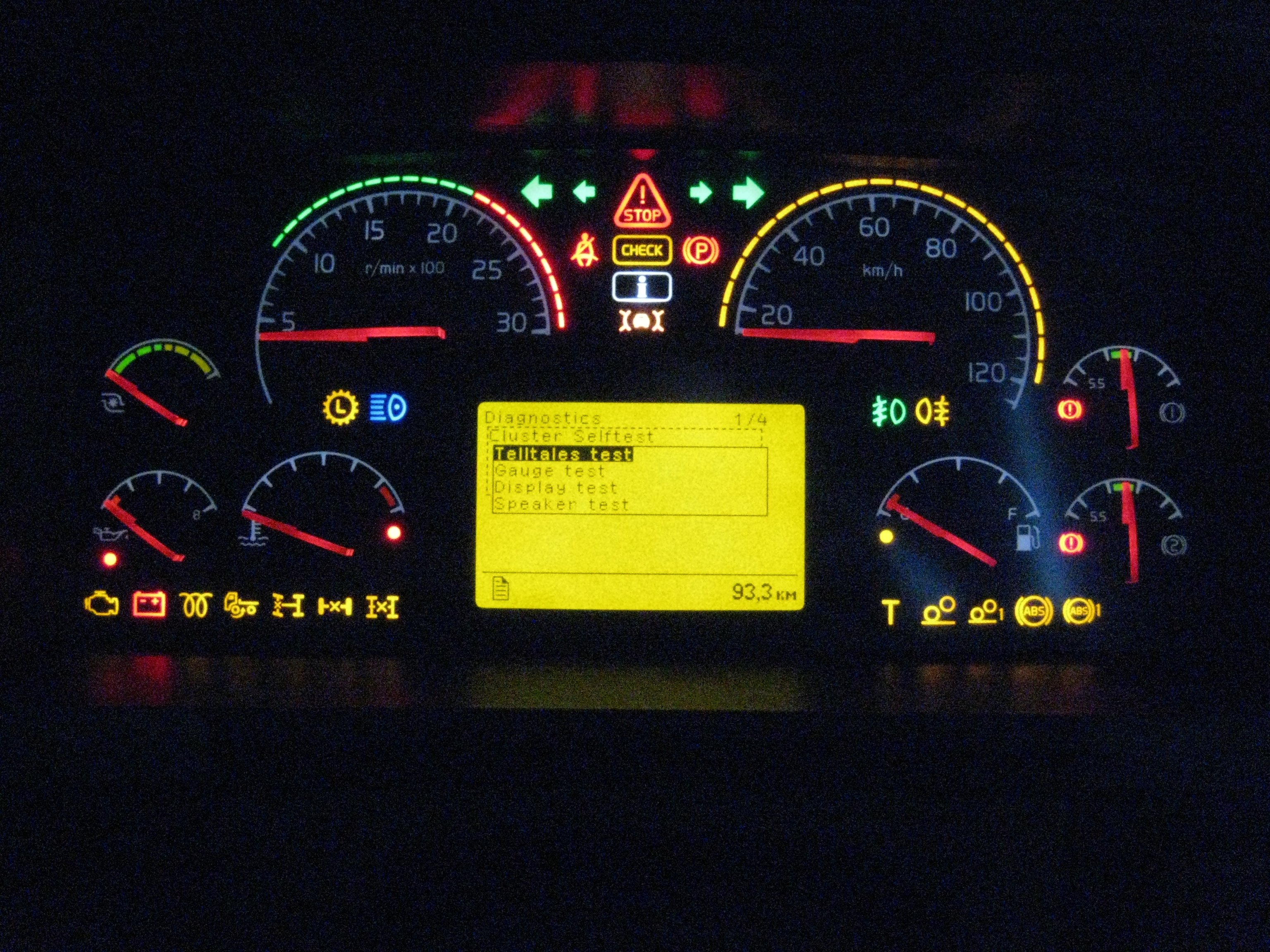 Volvo FM version 2 truck instrument cluster